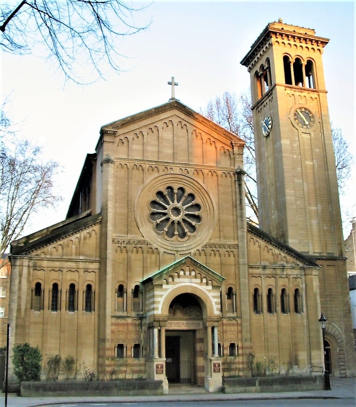 Russian Orthodox Cathedral of the Dormition of the Mother of God and All Saints, Ennismore Gardens, Kensington, London